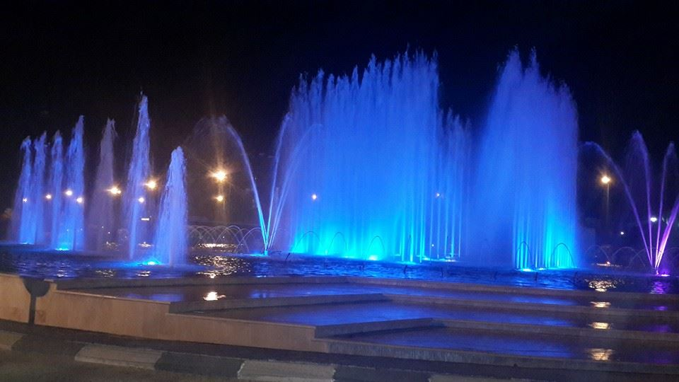 ashqelon